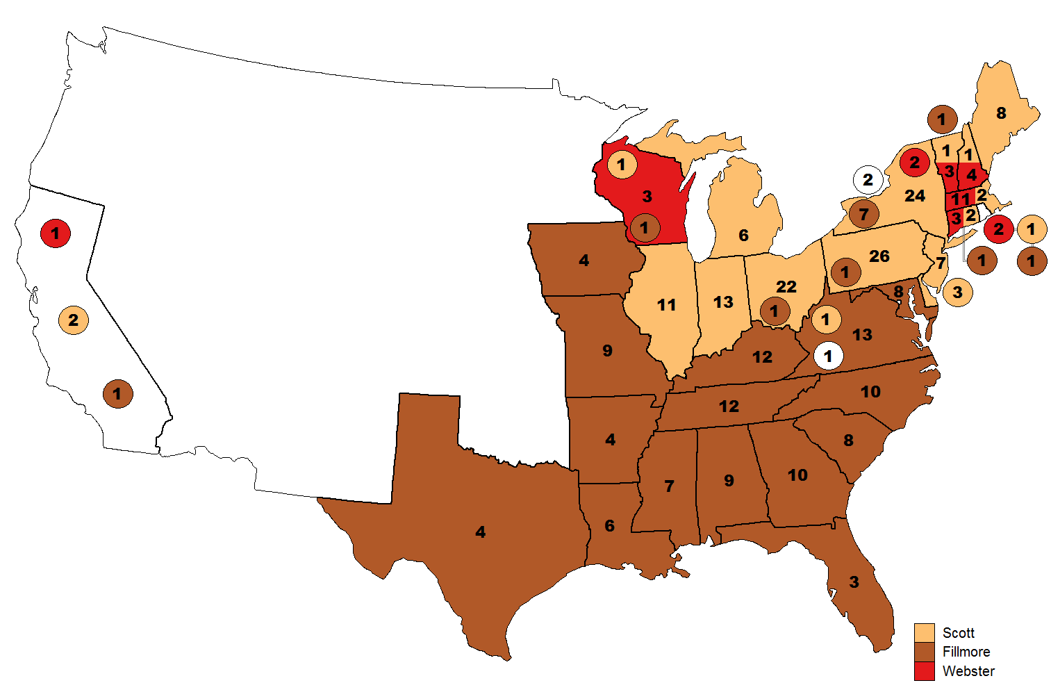 Results by State Delegation of the 1st Ballot for the 1852 Whig Party Presidential Nomination.